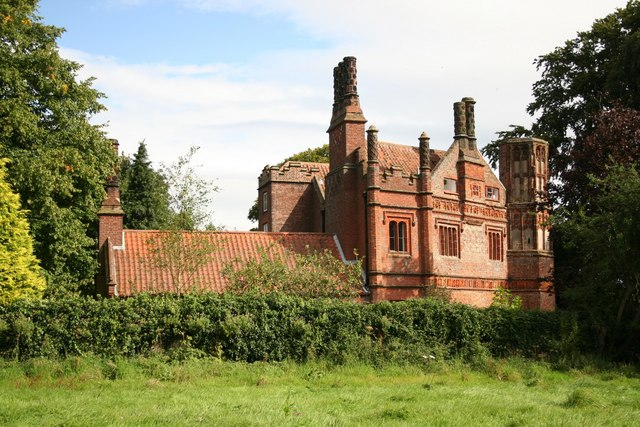 Tudor Manor House Part of a larger Manor House built c1525 for Sir Ralph Shelton, later used for many years as the Rectory